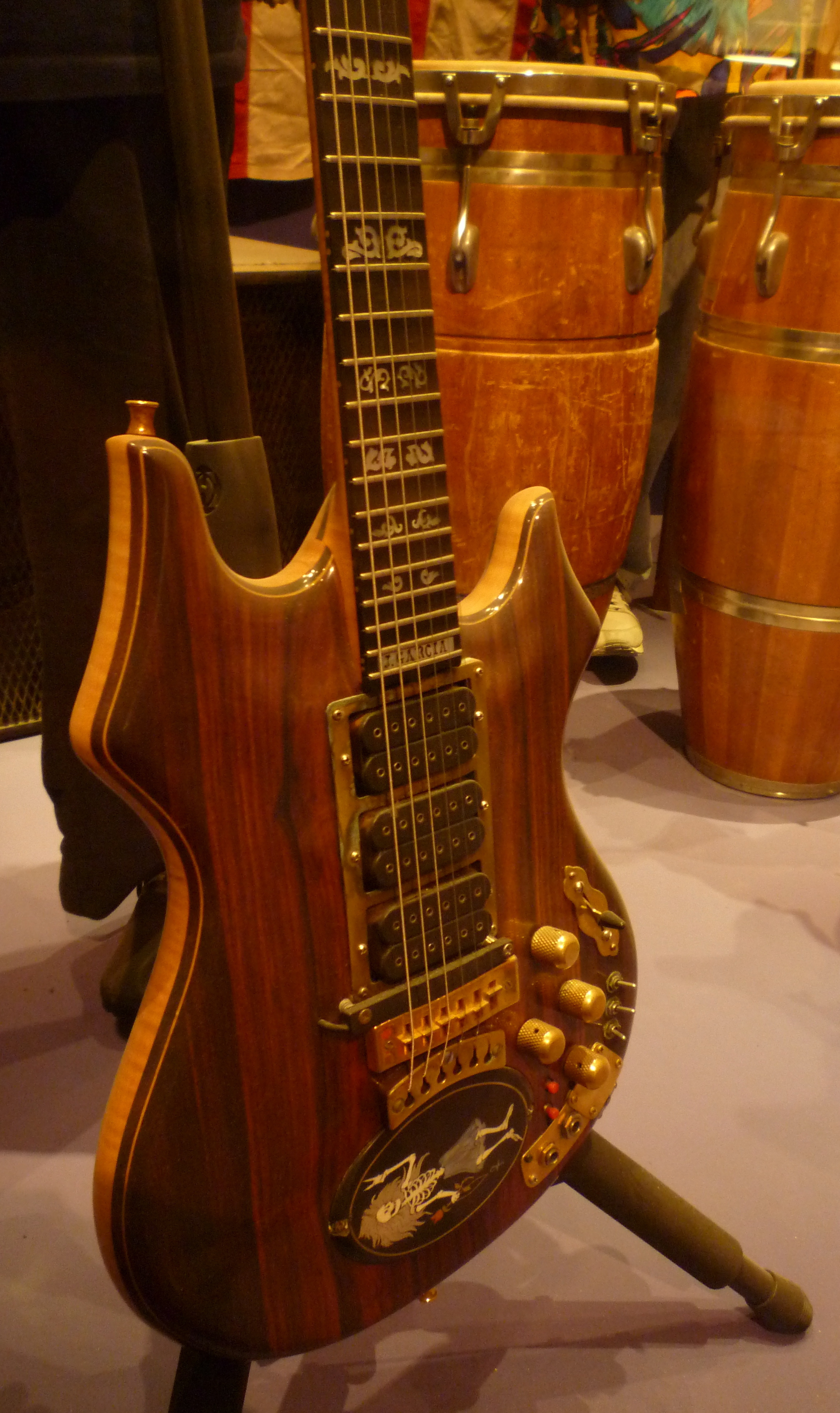 One of Jerry Garcia's Guitars -:named Rosebud (details)